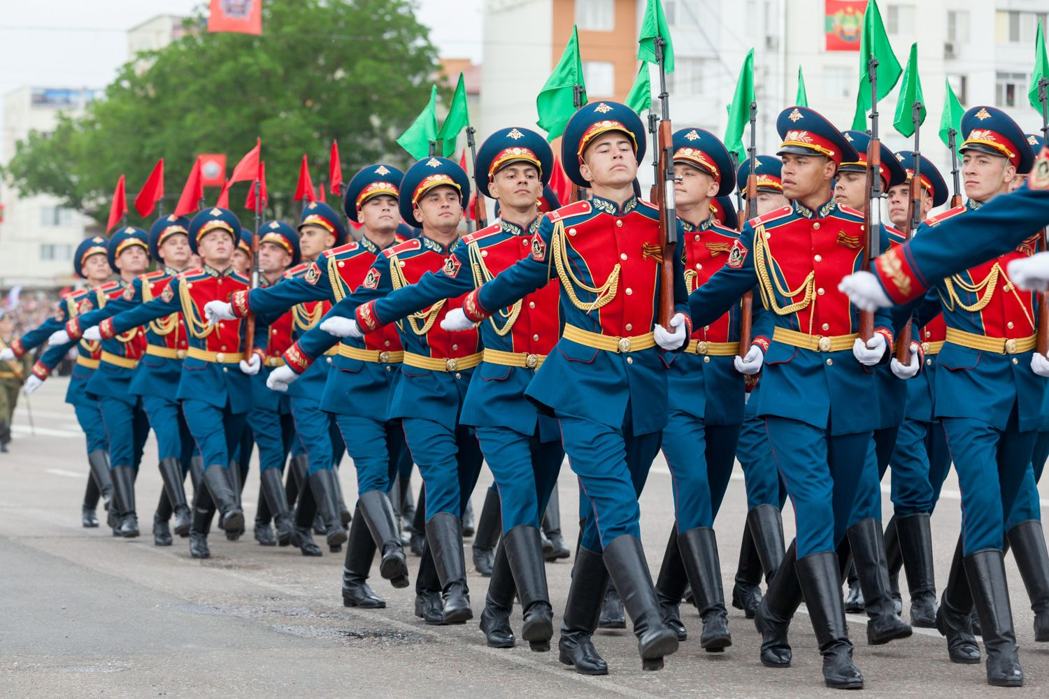 The ceremonial events devoted to the 73rd anniversary of the Great Victory in Tiraspol.